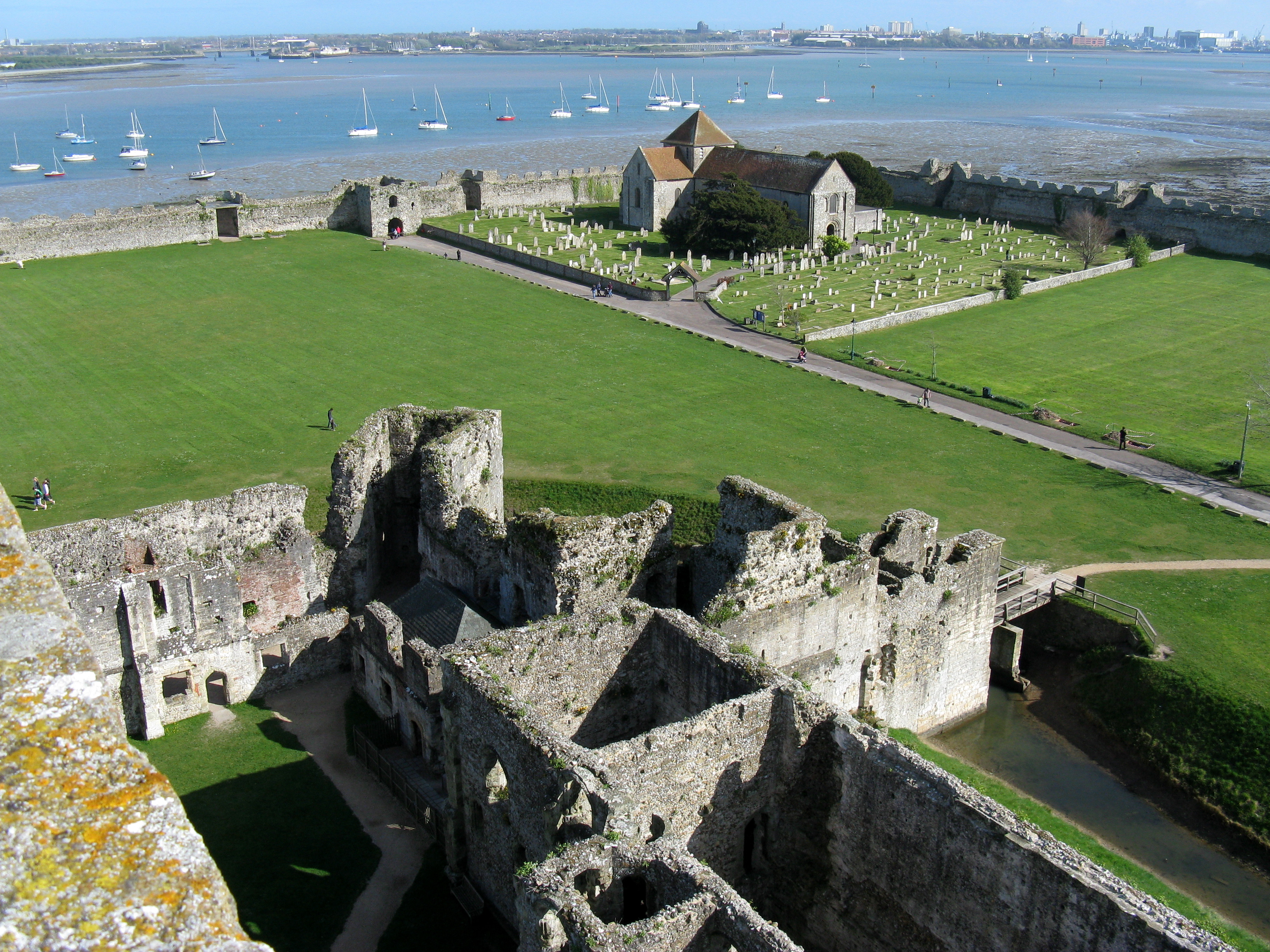 View from the tower, Portchester Castle